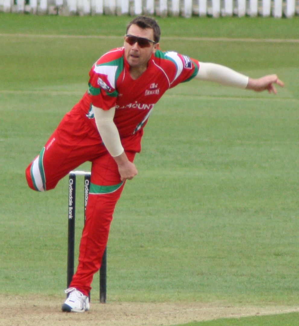 Robert Croft bowling for Glamorgan during the 2011 Clydesdale Bank 40 tournament, against Somerset at the County Ground, Taunton.